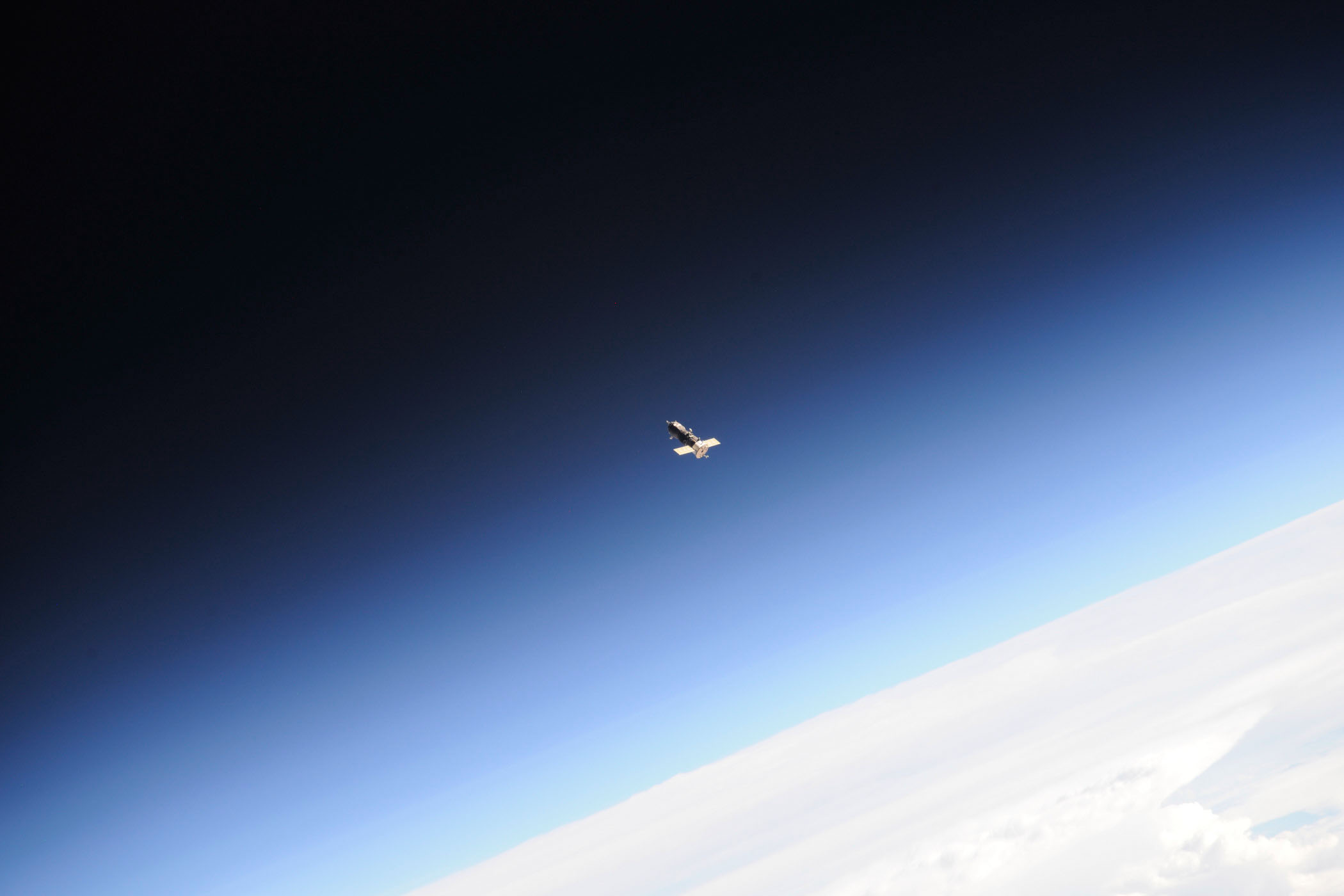 The unpiloted ISS Progress 38 resupply vehicle approaches the International Space Station, bringing almost two tons of food, fuel, oxygen, propellant and supplies for the Expedition 24 crew members aboard the station. The attempted docking on July 2, 2010, was aborted when telemetry between the Progress and the space station was lost about 25 minutes before its planned docking. As a result, the Progress vehicle continued on its trajectory and glided past the space station. Later, the Progress successfully docked to the aft end of the Zvezda Service Module at 12:17 p.m. (EDT) on July 4, 2010. The docking was executed flawlessly by Progress' Kurs automated rendezvous system.